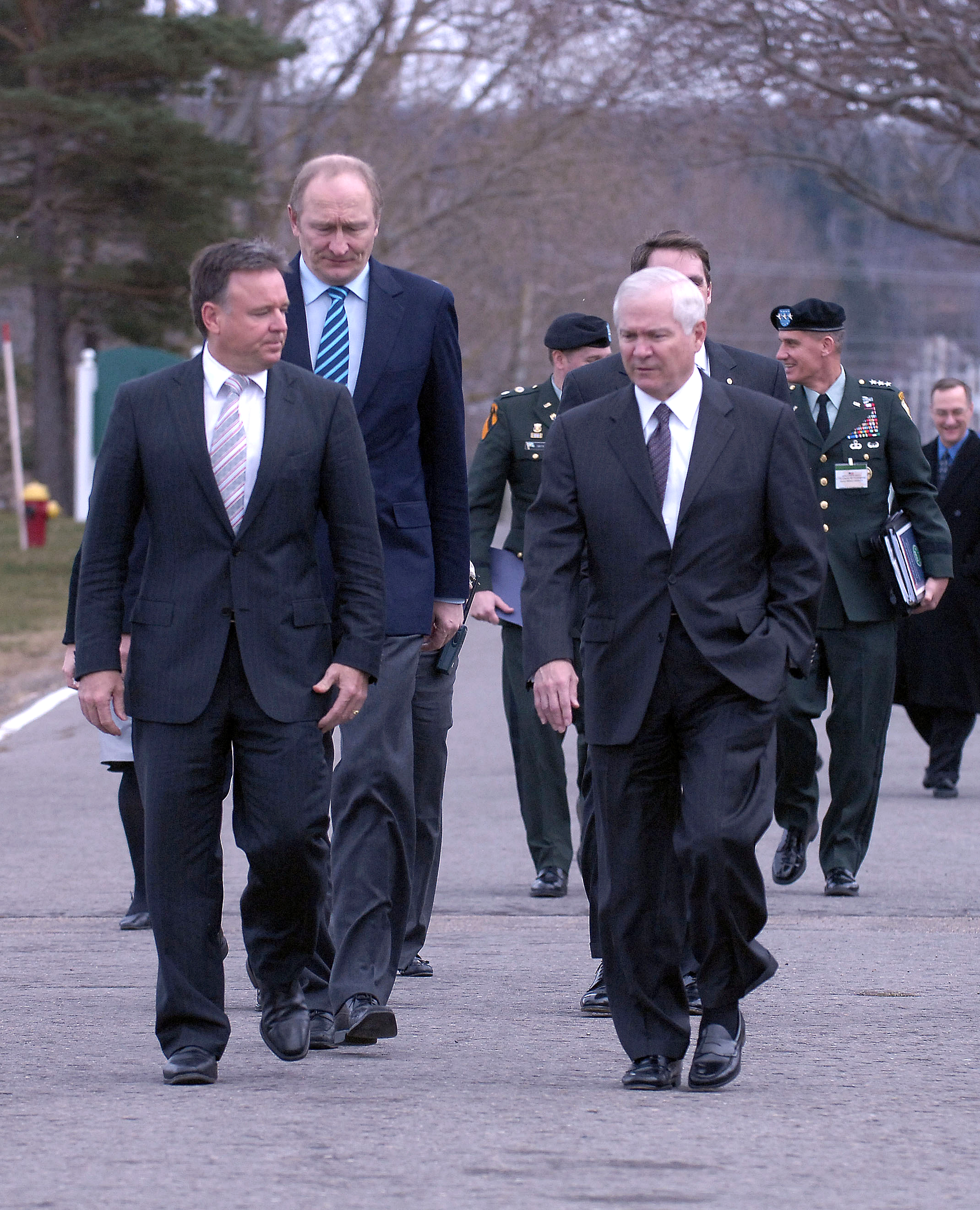 U.S. Defense Secretary Robert Gates walks with Australian Minister of Defense Joel Fitzgibbon and Estonia's Defense Minister Jaak Aaviksoo after meeting with them in Cornwallis Park, Nova Scotia, Nov. 21, 2008.